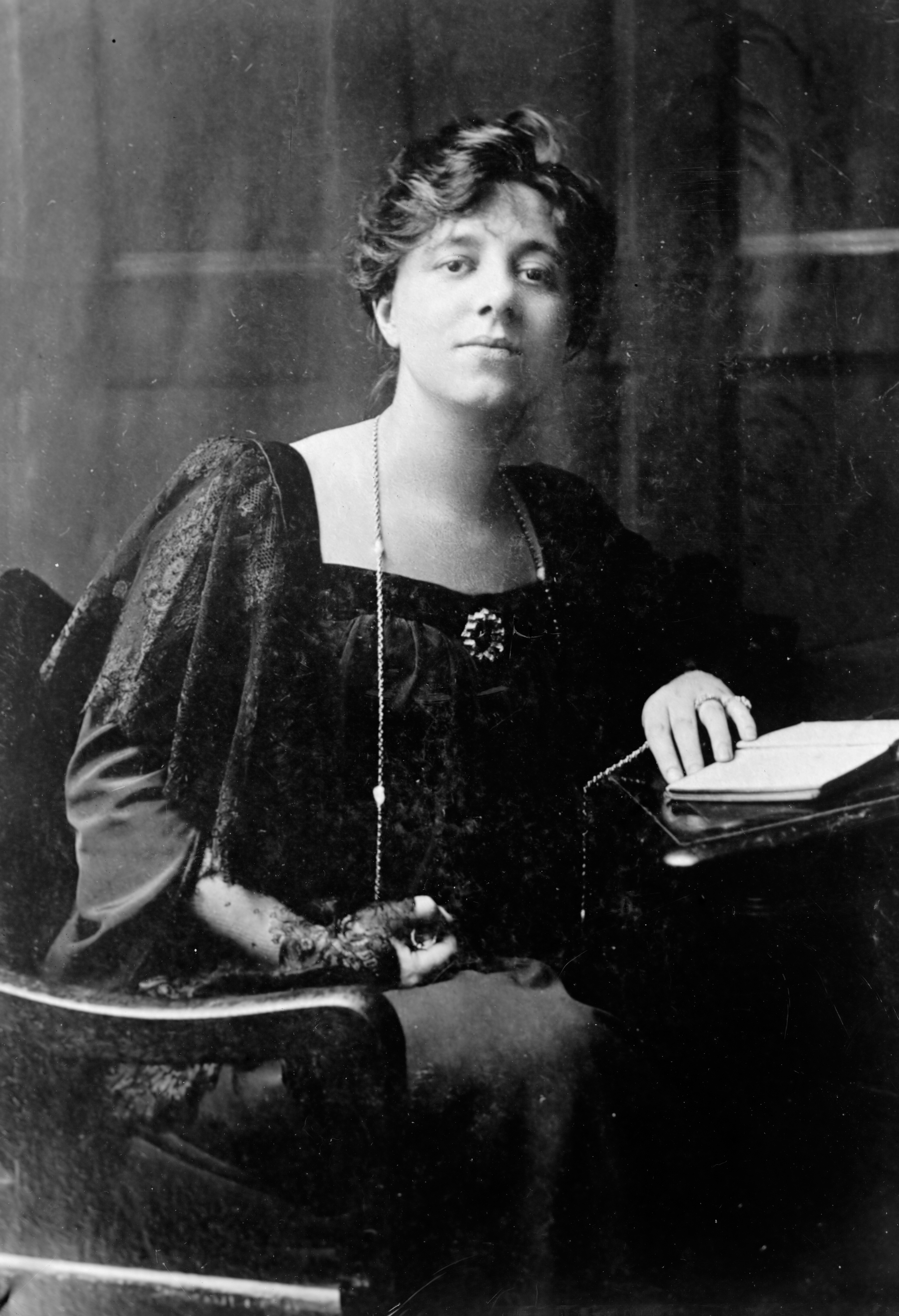 Photograph of Laurence Alma-Tadema, English novelist, poet and activist. The image is undated but estimated to be earlier than 1915 when the subject would be 50 years of age. It could possibly have been taken in the USA, during Alma-Tadema's 1907-1908 tour. Laurence Alma - Tadema. Date Created/Published: [no date recorded on caption card]. Reproduction Number: LC-DIG-ggbain-37429 (digital file from original negative). Reproduction Number: LC-DIG-ggbain-37429 (digital file from original negative)